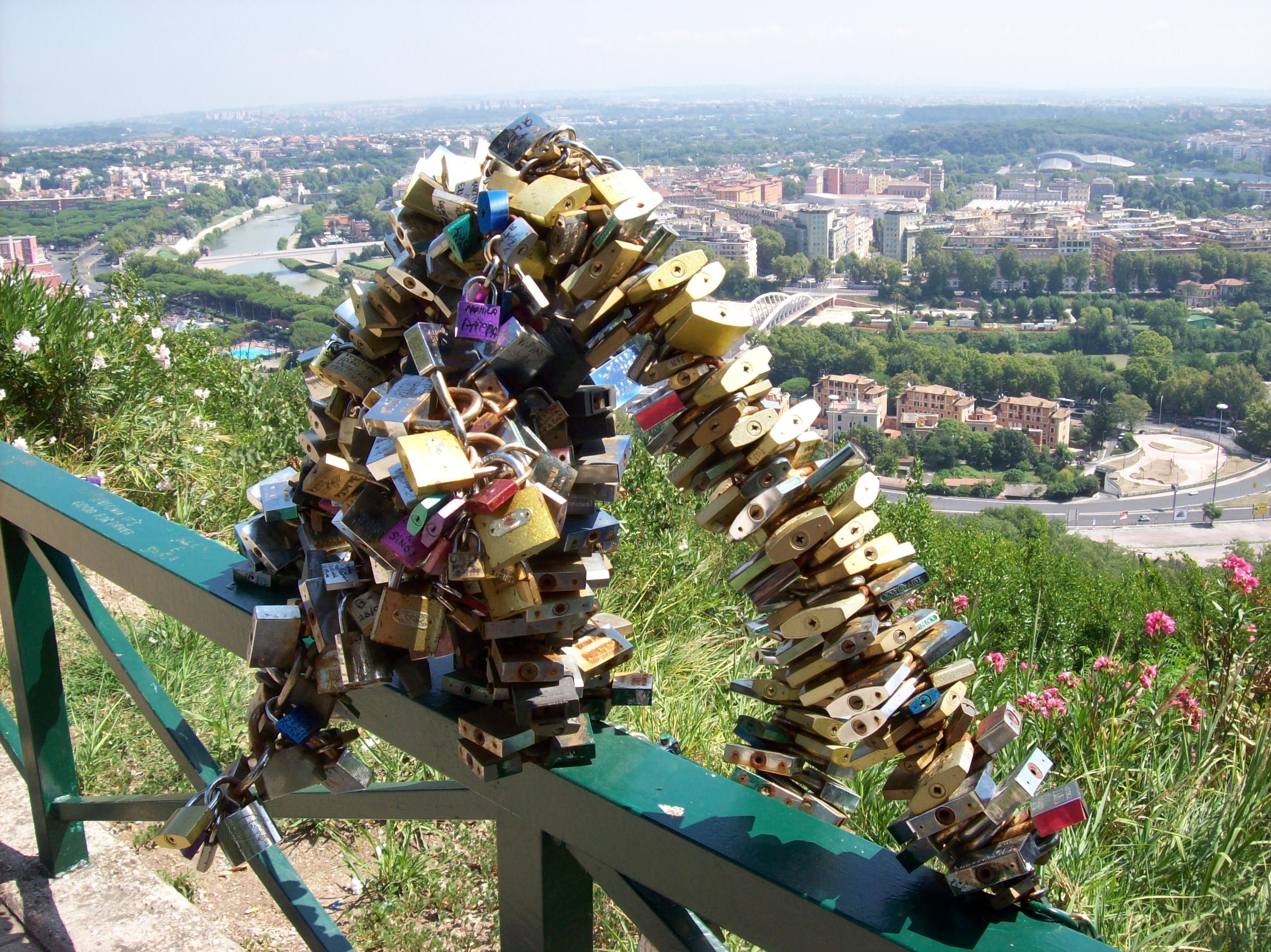 Locks secured by young couples of lovers as sign of eternal love, left on the terrace of Monte Mario in Rome; such customary behaviour comes from emulation of the Federico Moccia's characters depicted in his famous teenager books